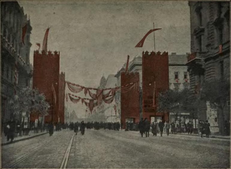 May day in Budapest, 1919, during the Soviet Republuc.